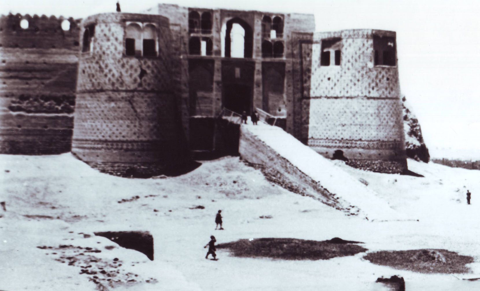 Nahavend Castle